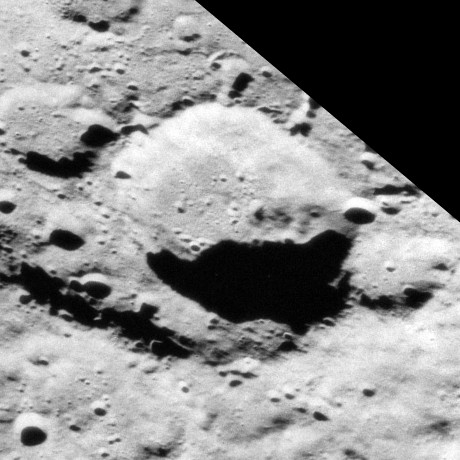 Oblique view of Clark crater, on the moon, facing east. From Apollo 17 mapping camera during trans-Earth injection.